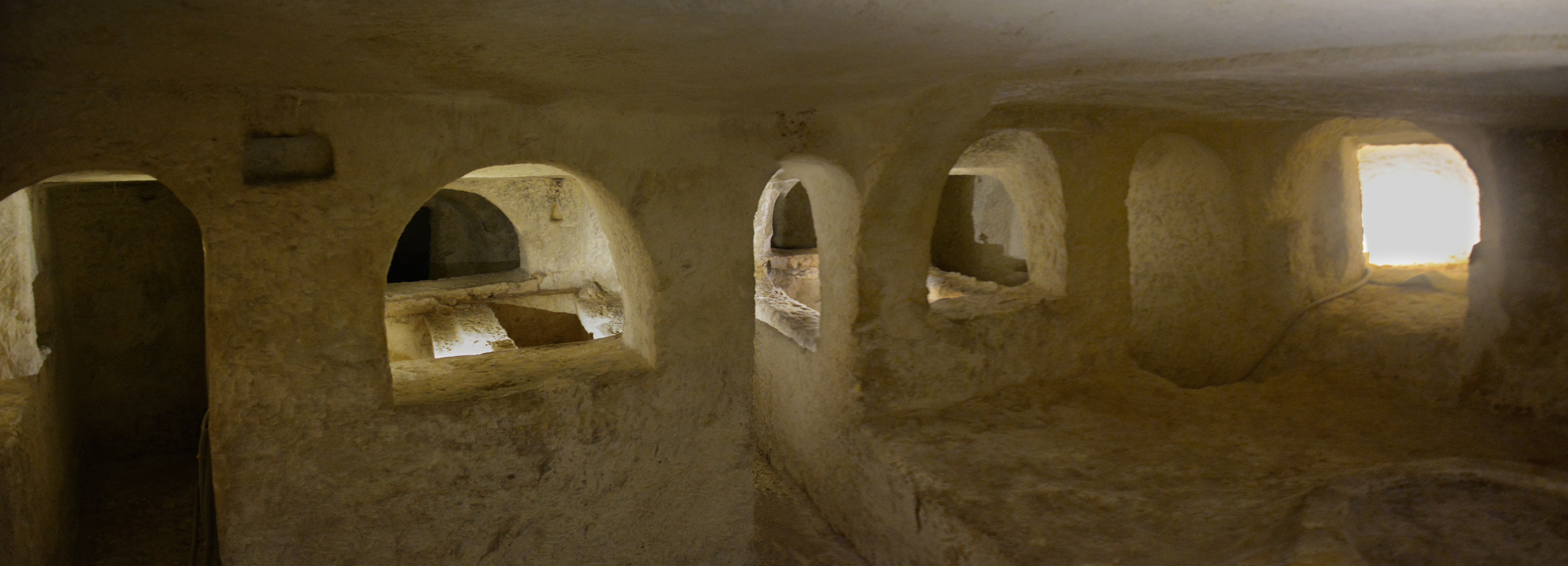 St. Paul’s catacombs in Rabat, Malta